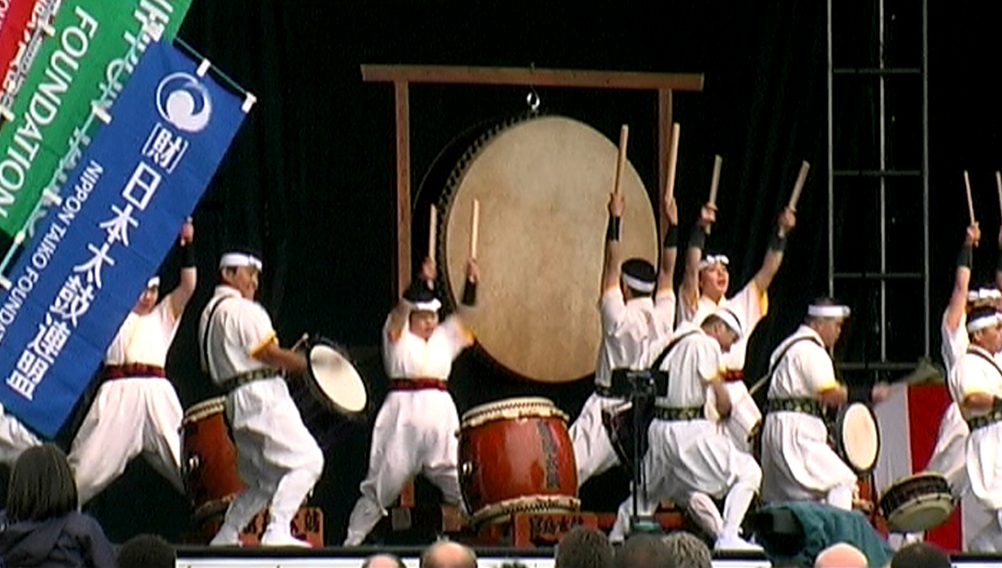 Performance from representatives of the Nippon Taiko Foundation. Image taken during the "Japan in the Park" Matsuri / festival held on the weekend of 19th - 20th May 2001 in Hyde Park, London. Part of the year-long Japan 2001 celebrations.